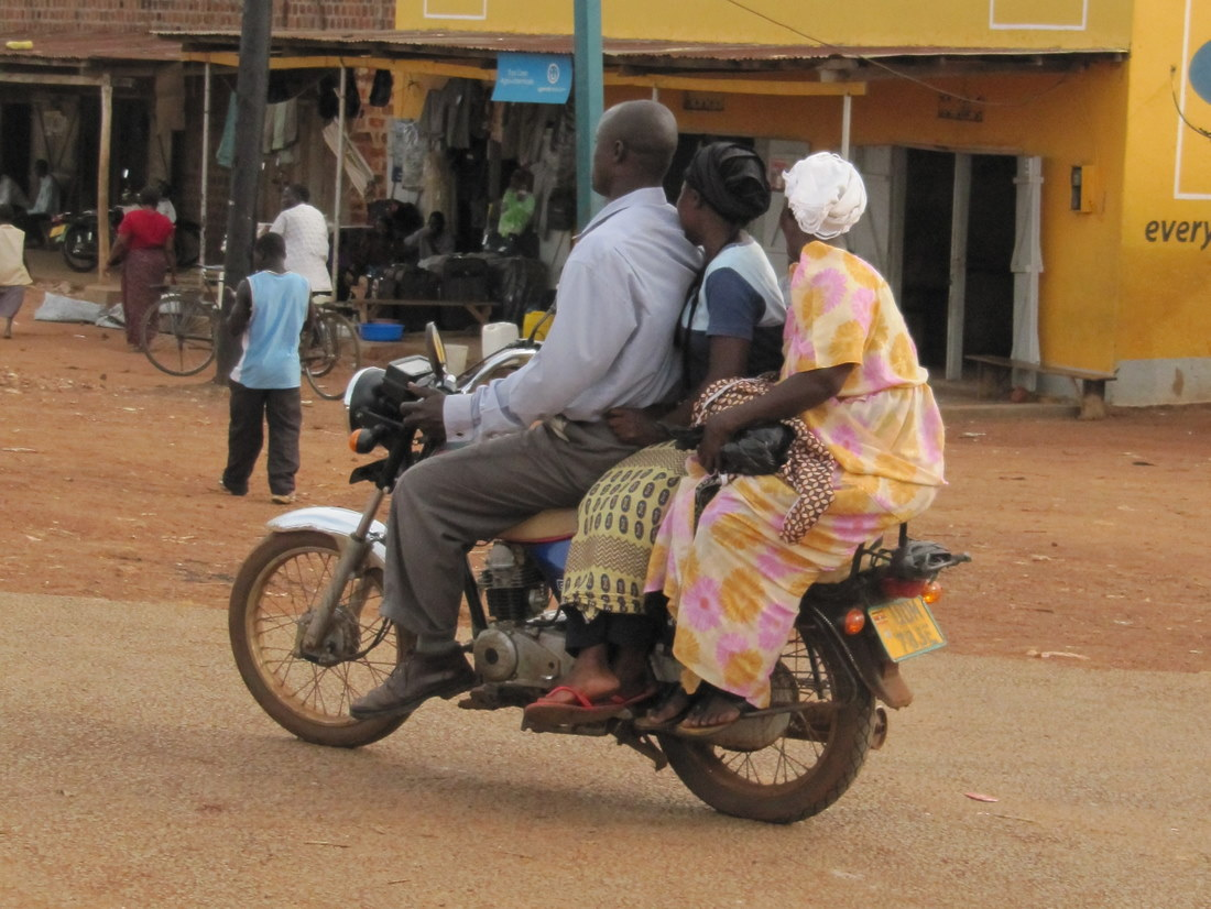 Boda-boda. Uganda, somewhere on A109 Road, between Jinja and Malaba